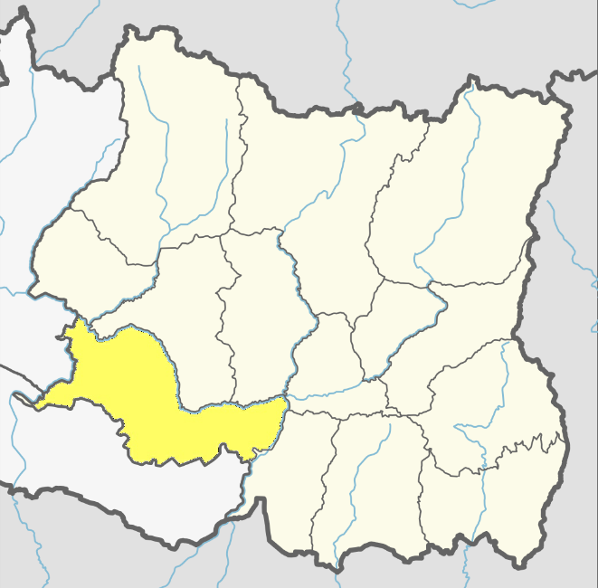 Udayapur district of Nepal in province 1